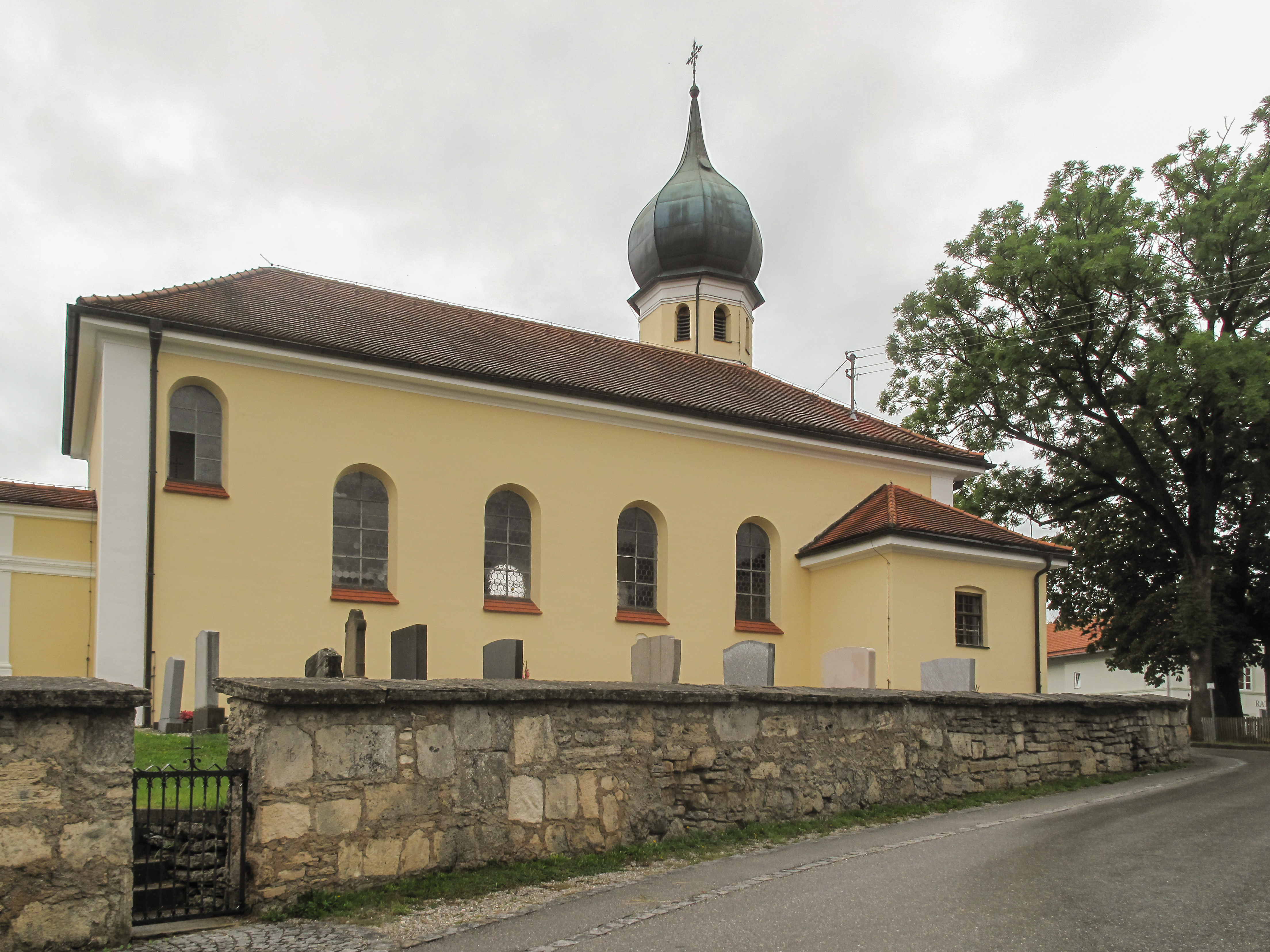 Spatzenhausen, church: Pfarrkirche Sankt Afra